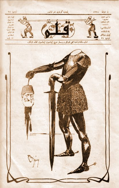 Cover of Kalem, an Ottoman magazine.